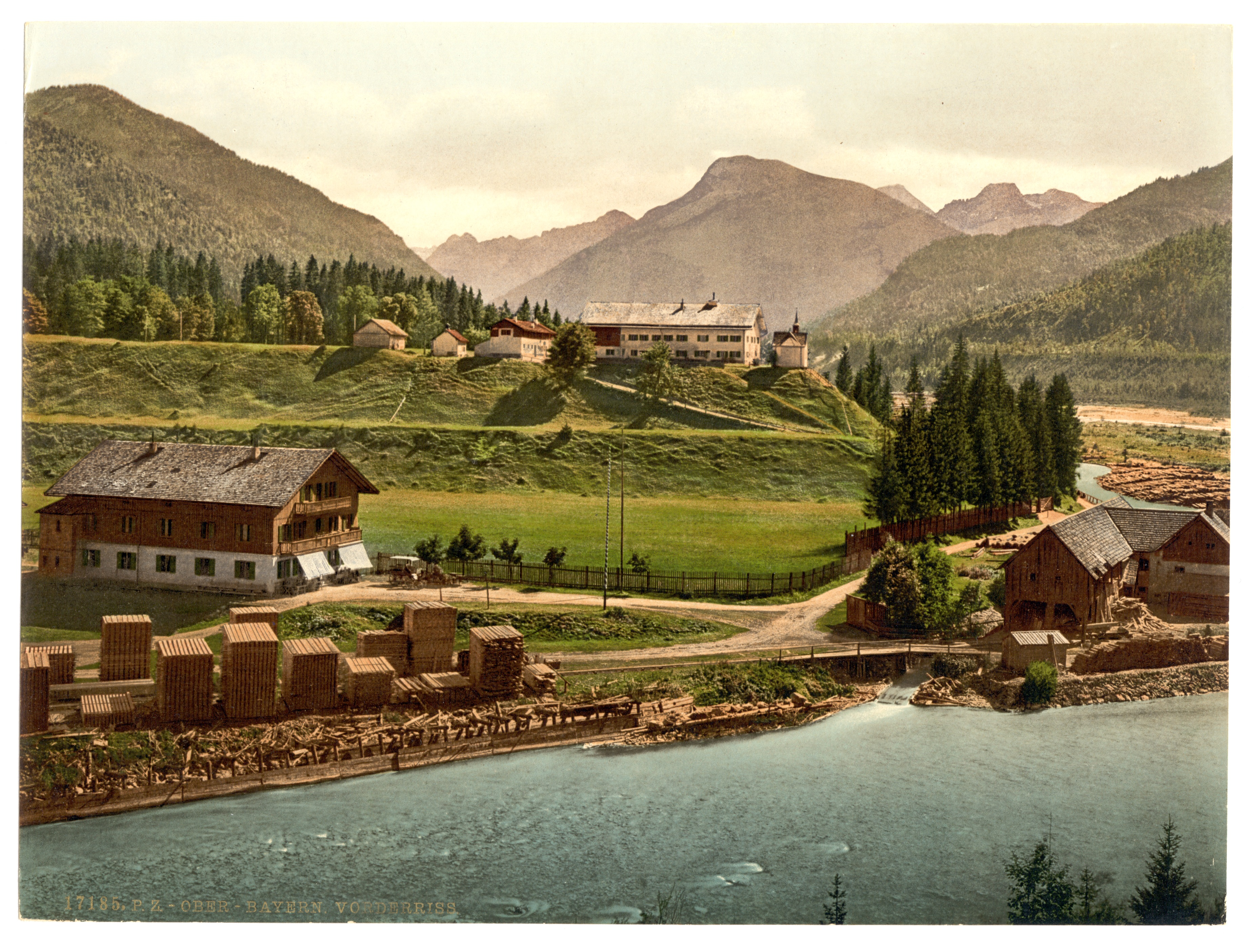 Title from the Detroit Publishing Co., catalogue J-foreign section. Detroit, Mich. : Detroit Photographic Company, 1905.; Print no. "17185".; Forms part of: Views of Germany in the Photochrom print collection.